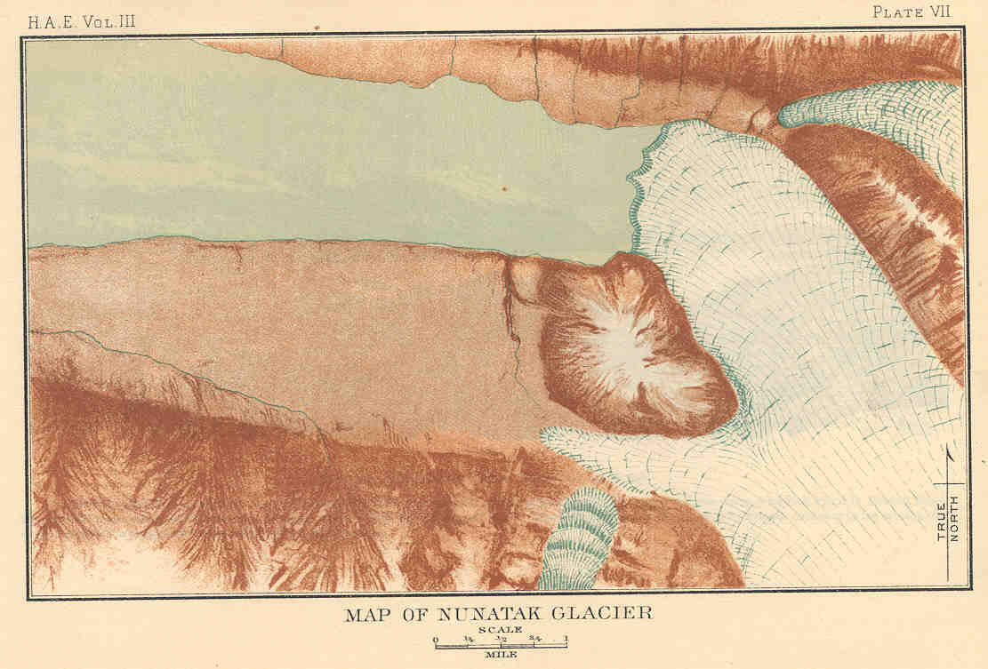 Map of Nunatak Glacier Subject: Glaciers, Nunatak Glacier (Alaska) Geographic Subject: United States--Alaska--Nunatak Glacier Tag: Polar